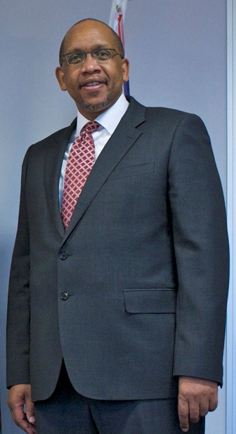 HRH Prince Seeiso at the National Assembly for Wales.